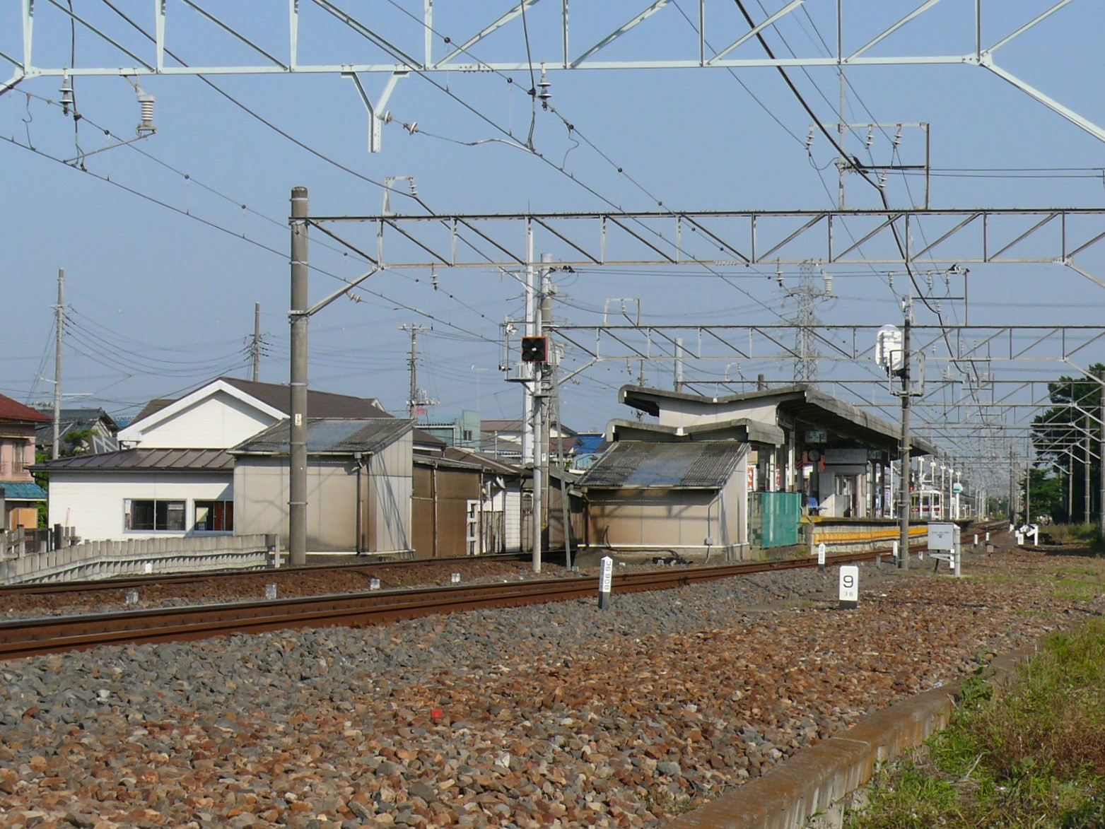 Wado Station on the Tobu Isesaki Line in Saitama Prefecture, Japan